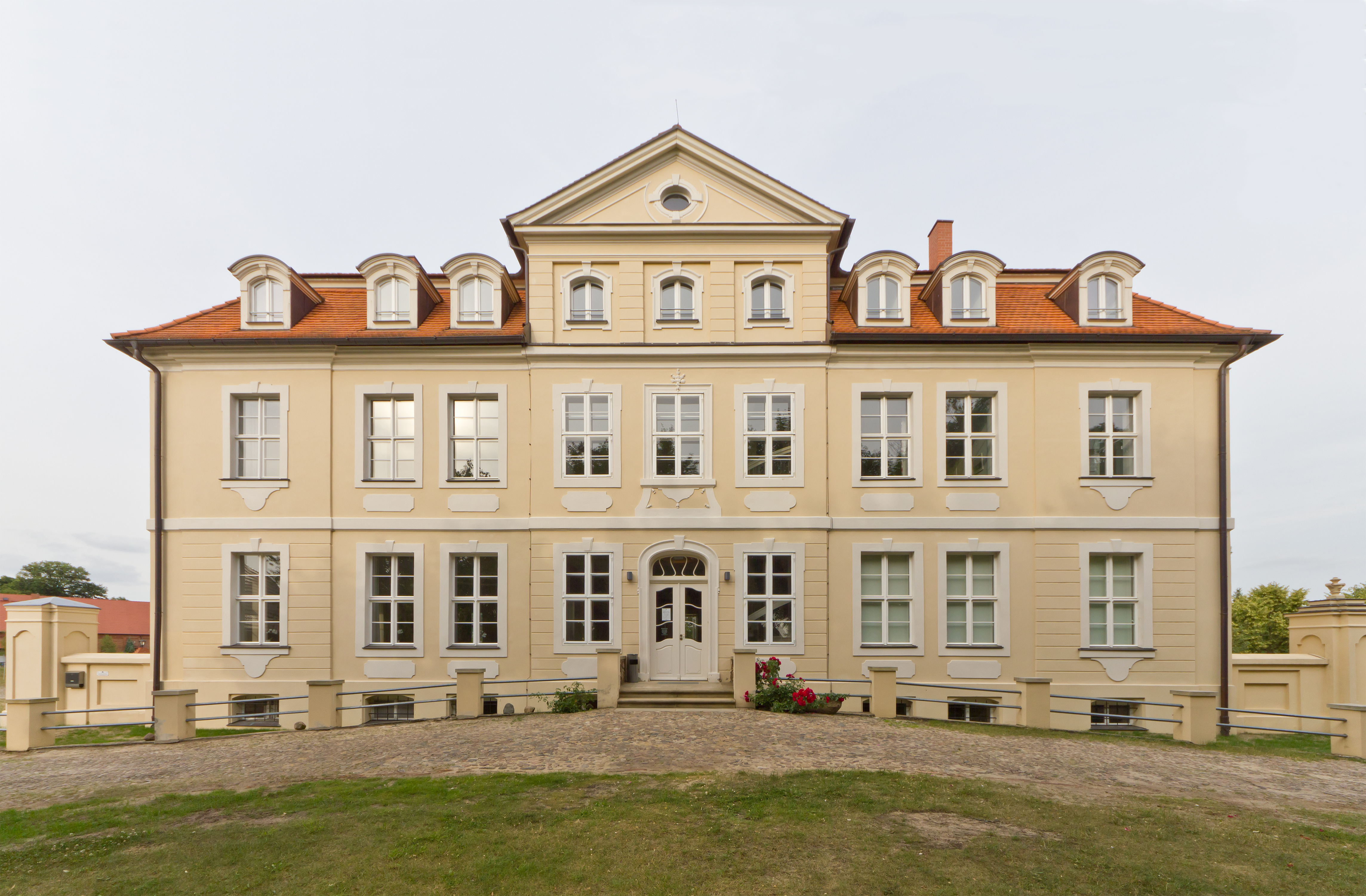 Manor in Grube, Bad Wilsnack, Brandenburg, Germany